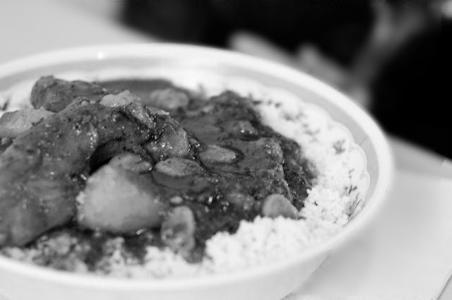 Plate of pkaila